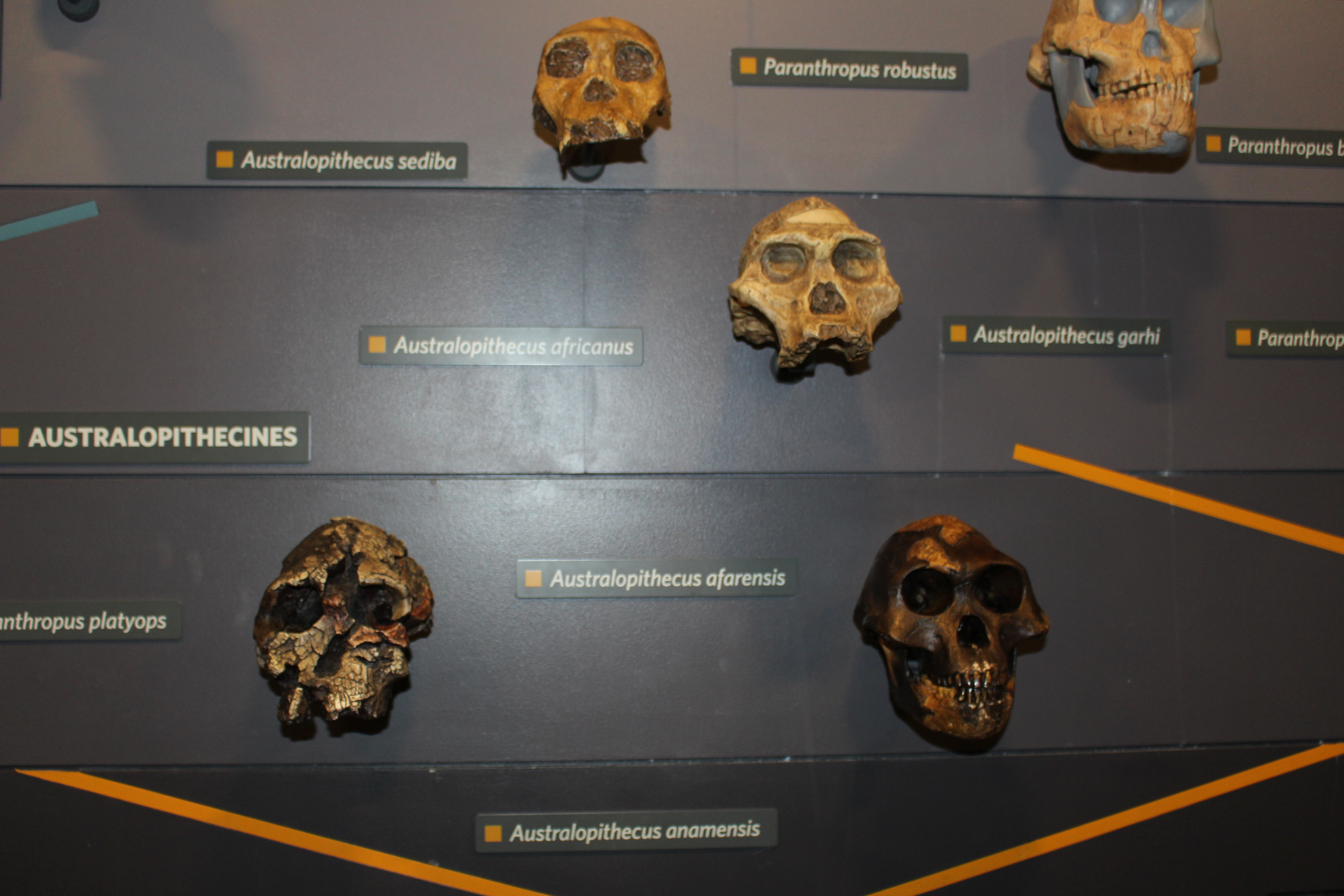 Hominidae sp. skulls at the Natural History Museum, England. From left to right and from top to bottom: Australopithecus sediba, Paranthropus robustus, Australopithecus africanus, Paranthropus platyops and Australopithecus afarensis.